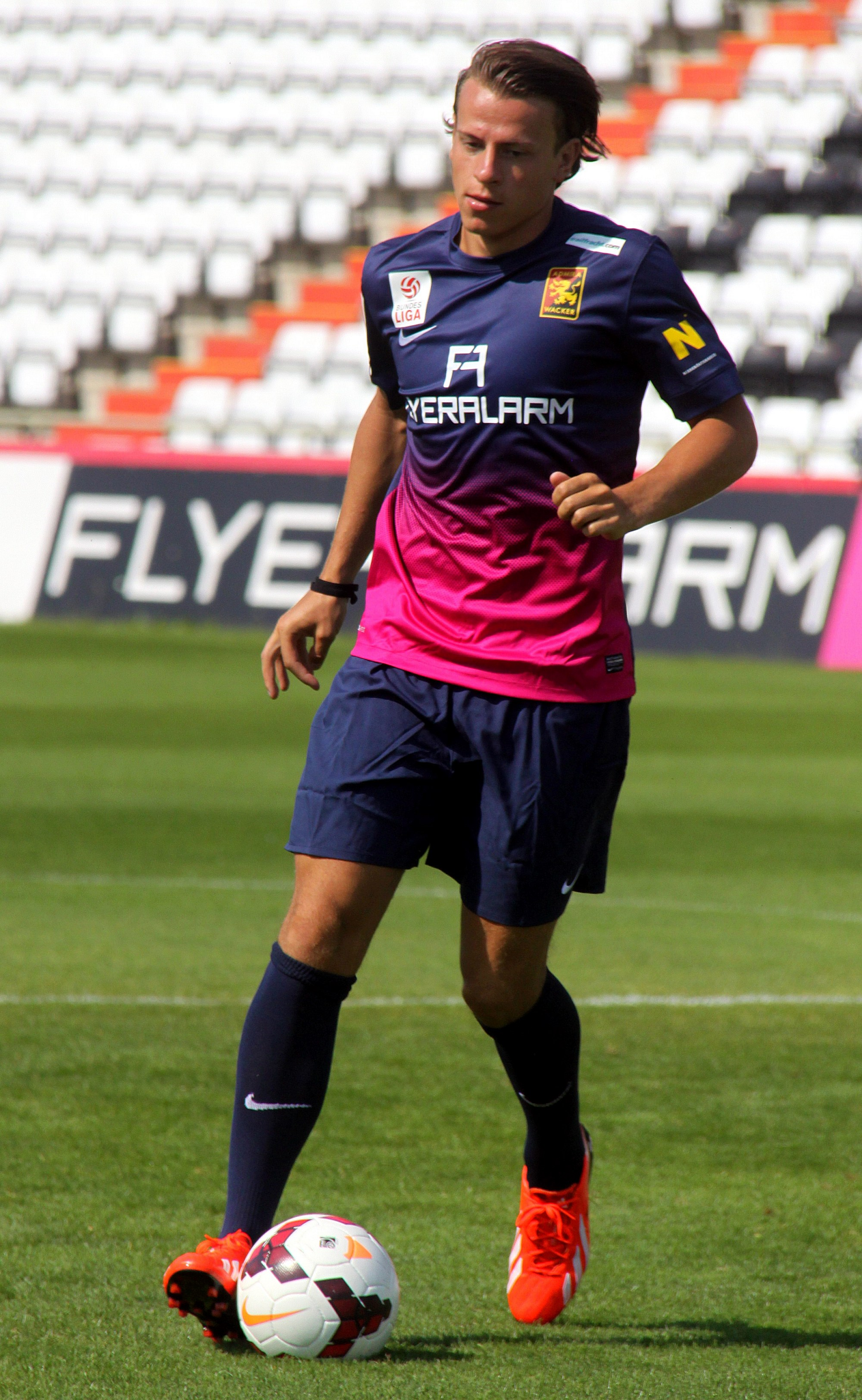 Teampresentation FC Admira Wacker Mödling at 2013-07-02 in Bundesstadion Südstadt. – The photo shows Stefan Schwab. - Google Maps - Google Earth